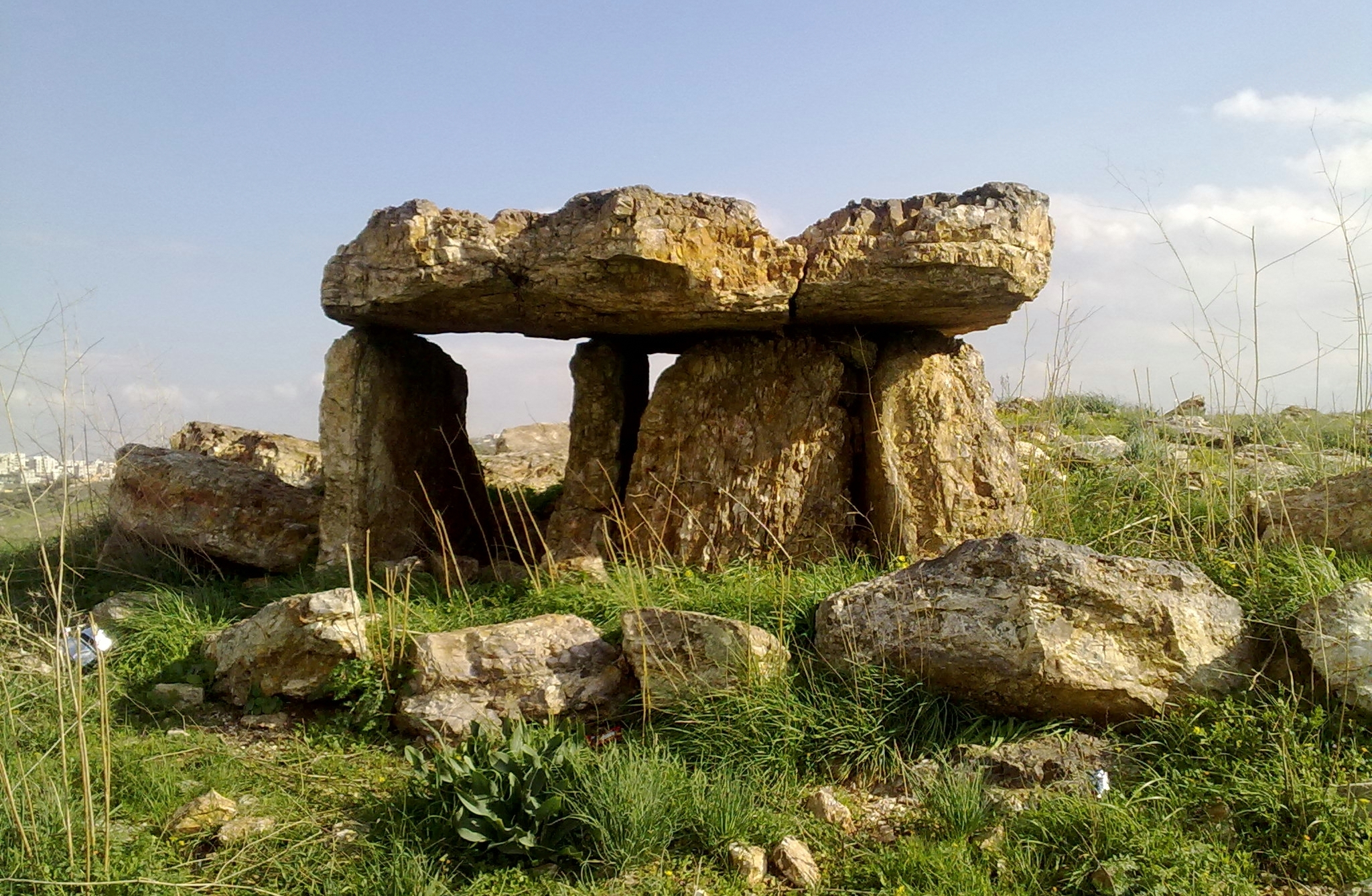 Dolmen_in_Johfiyeh_Irbid_north_of_Jordan_Dec2009